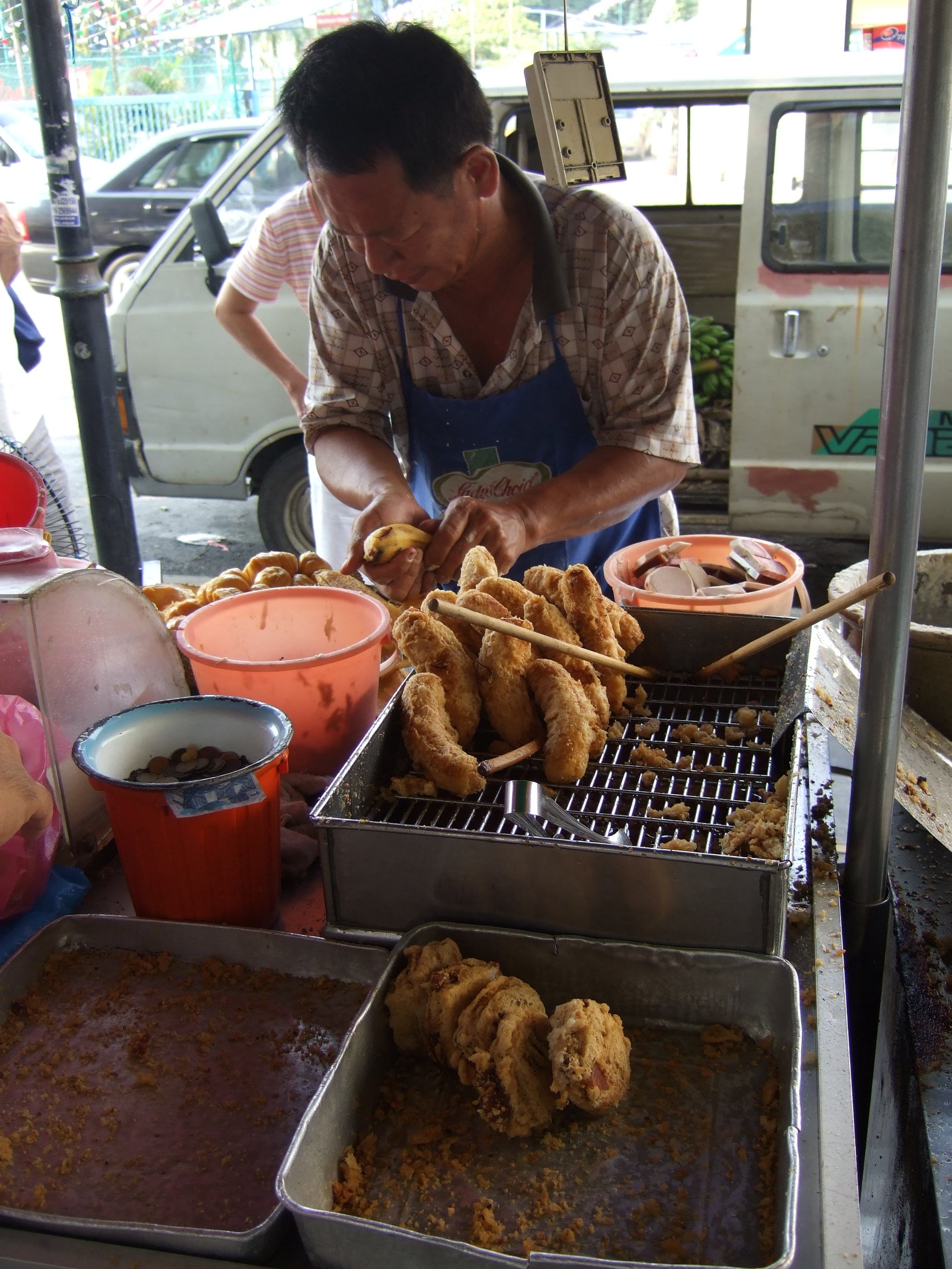 Battered fried banana. Crispy on the outside, sweet and mushy on the inside.